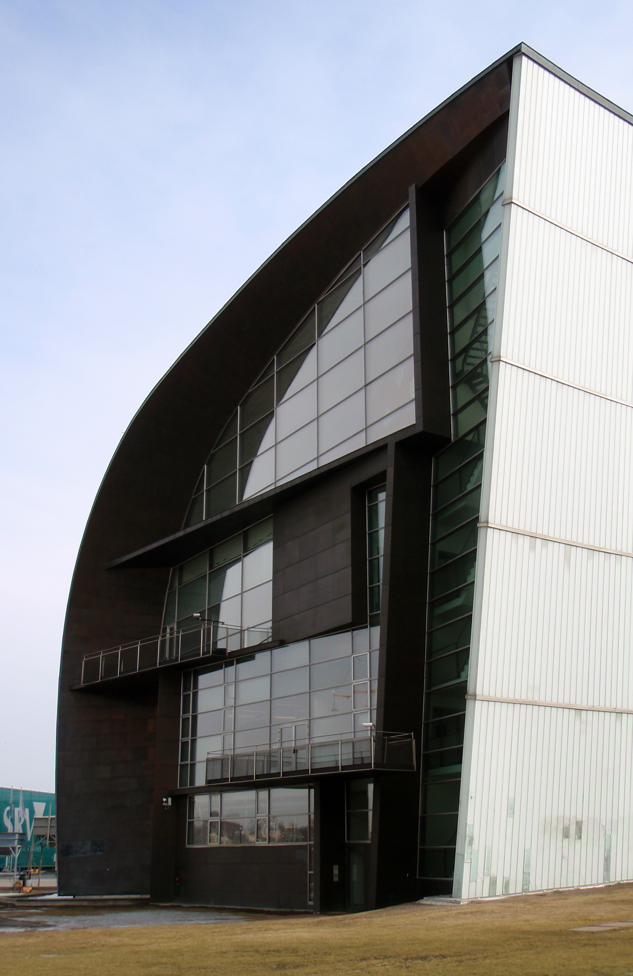 Photo of Kiasma.